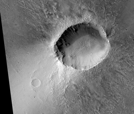 Dilly Crater, as seen by hirise. Location is 13.3 North and 157.2 East. Image was taken by the Mars Reconnaissance Orbiter's HiRISE. The HiRISE camera was built by Ball Aerospace and Technology Corporation and is operated by the University of Arizona. Image courtesy NASA/JPL/University of Arizona.